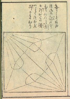 Hiden Senbazuru Orikata ("The Secret of One Thousand Cranes Origami") is one of the oldest known origami books